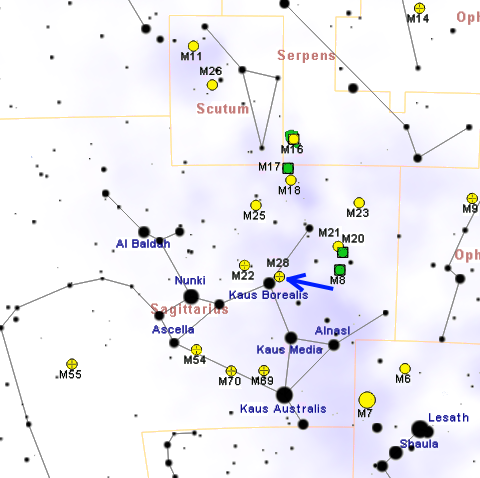 Map of M28